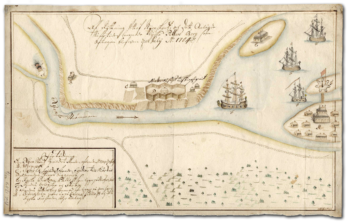 A painting over the Russian city: Saint Petersburg